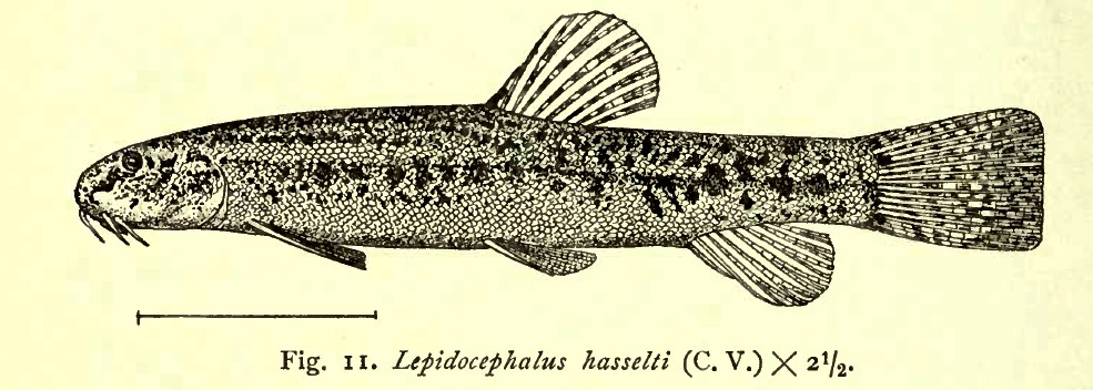 Illustration of Lepidocephalichthys hasselti, from Weber & Beaufort (1913) The fishes of the Indo-Australian Archipelago .. II: 28